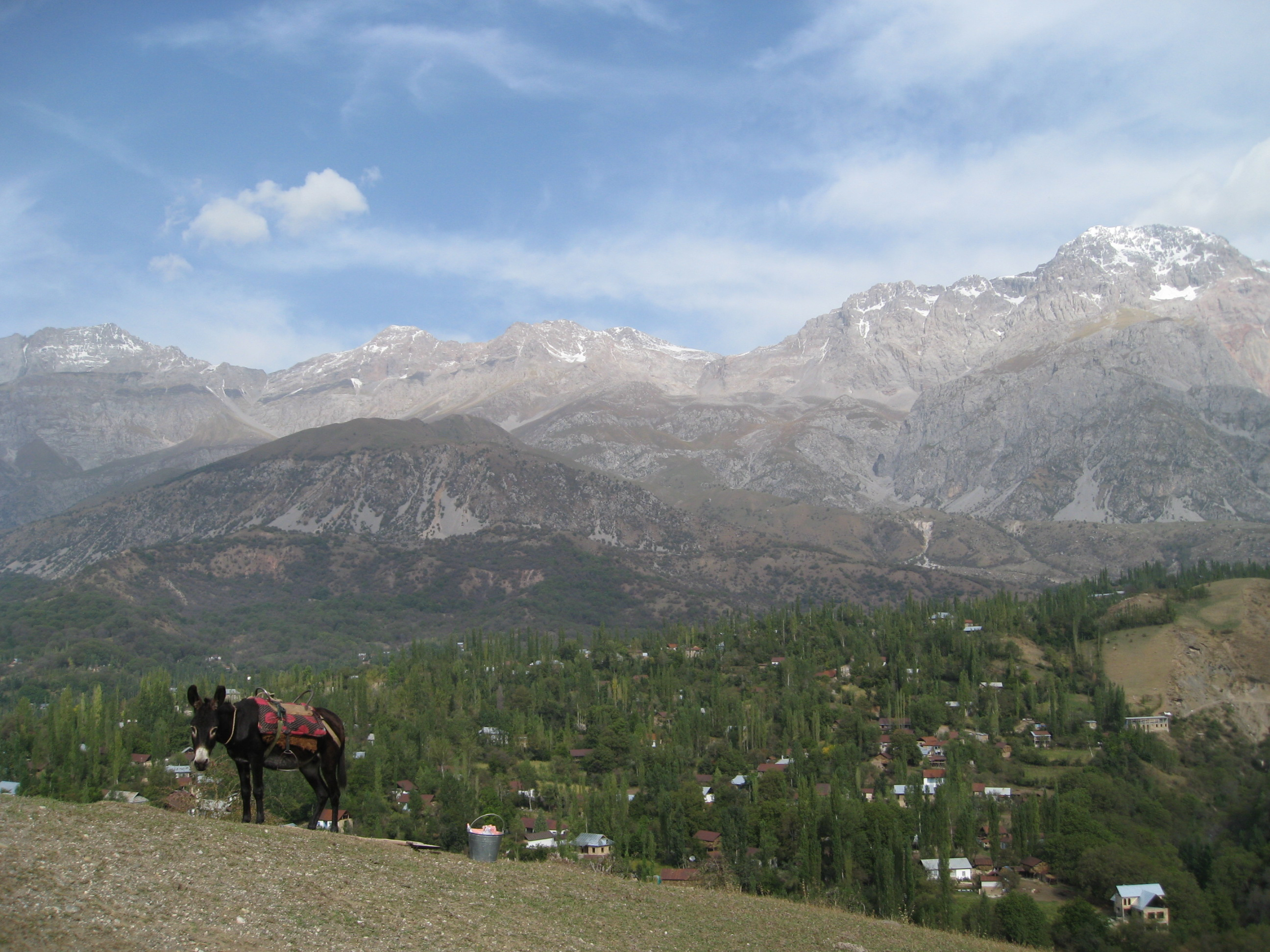 Panorama in Arslanbob